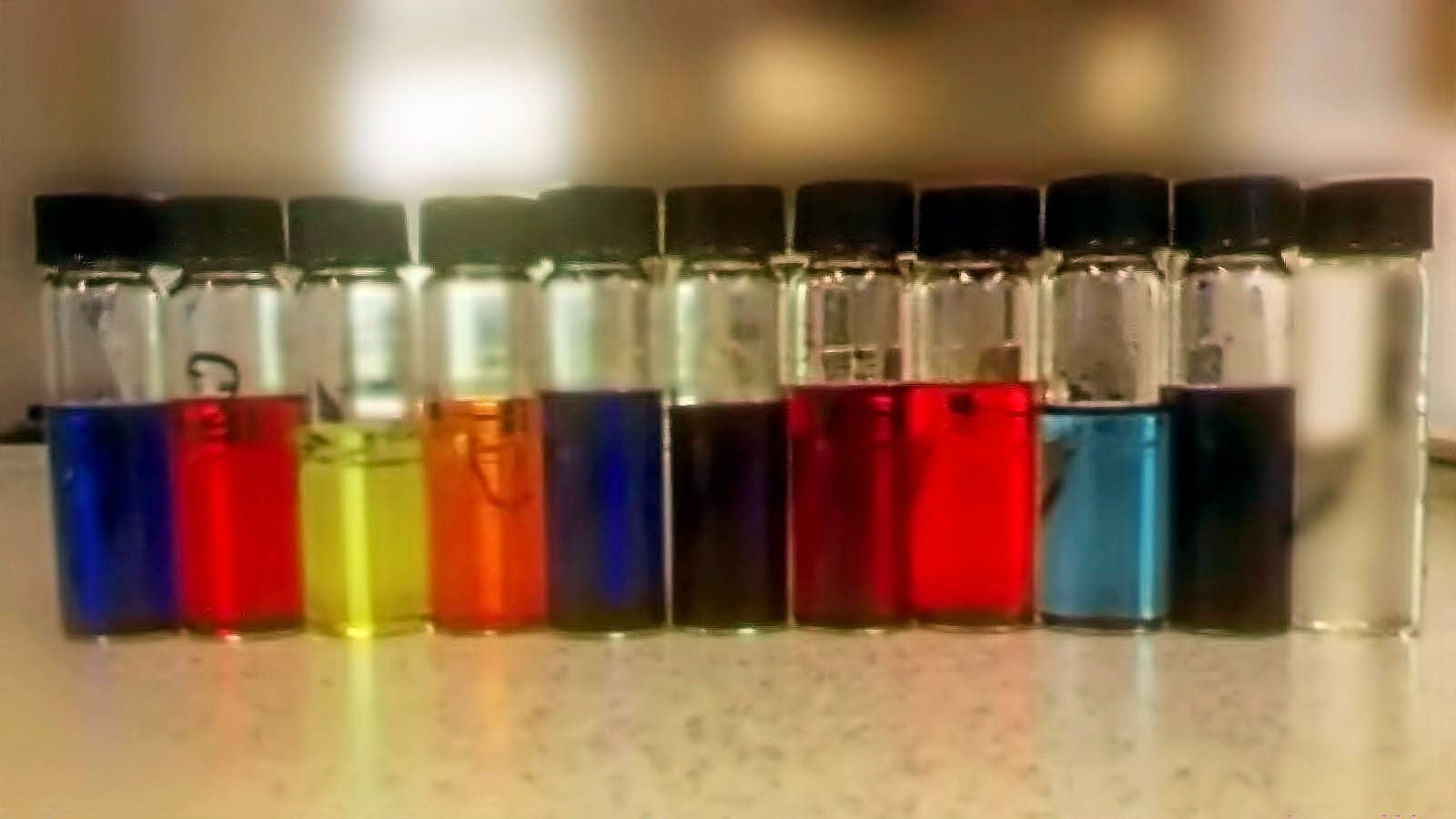 Solutions of Brooker's Merocyanine ((1-methyl-4-[(oxocyclohexadienylidene)ethylidene]-1,4-dihydropyridine, 'MOED') dissolved in, from left to right: Acetone, 96 % ethanol, acetic acid, water, DMF, acetonitrile, 2-propanol, methanol, THF and DMSO. On the far right, pure water for comparison.